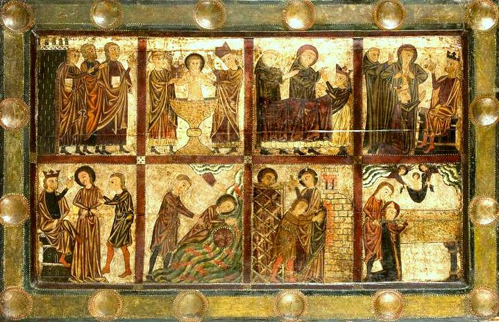 Altar of Santa Eugenia Saga, Ger, Catalonia